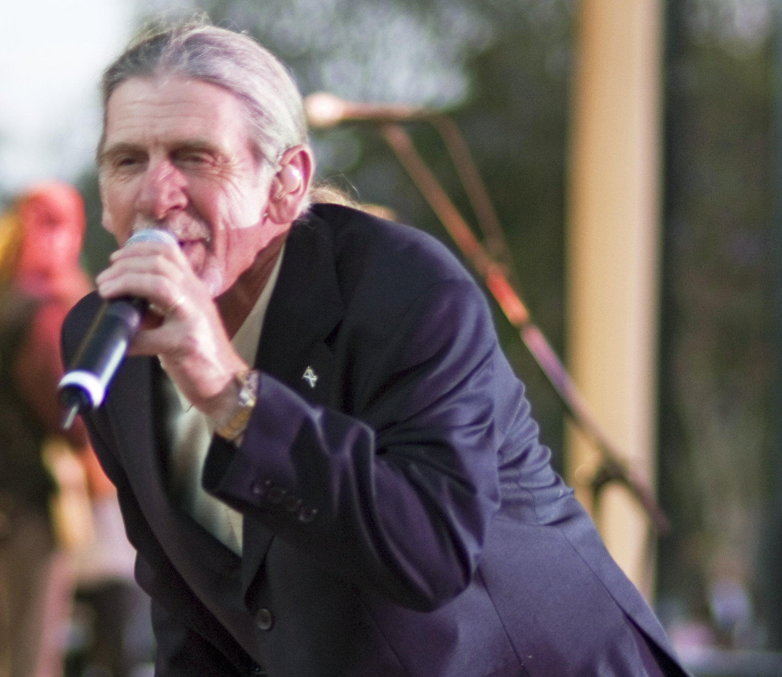 Alex Ligertwood, former lead singer for Santana. World Classic Rockers Concert, 6/23/2007 Camarillo, CA.